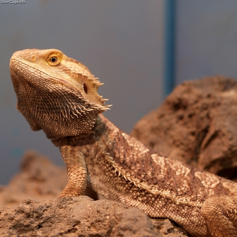 Central bearded dragon (Pogona vitticeps) in the Tennouji Zoo